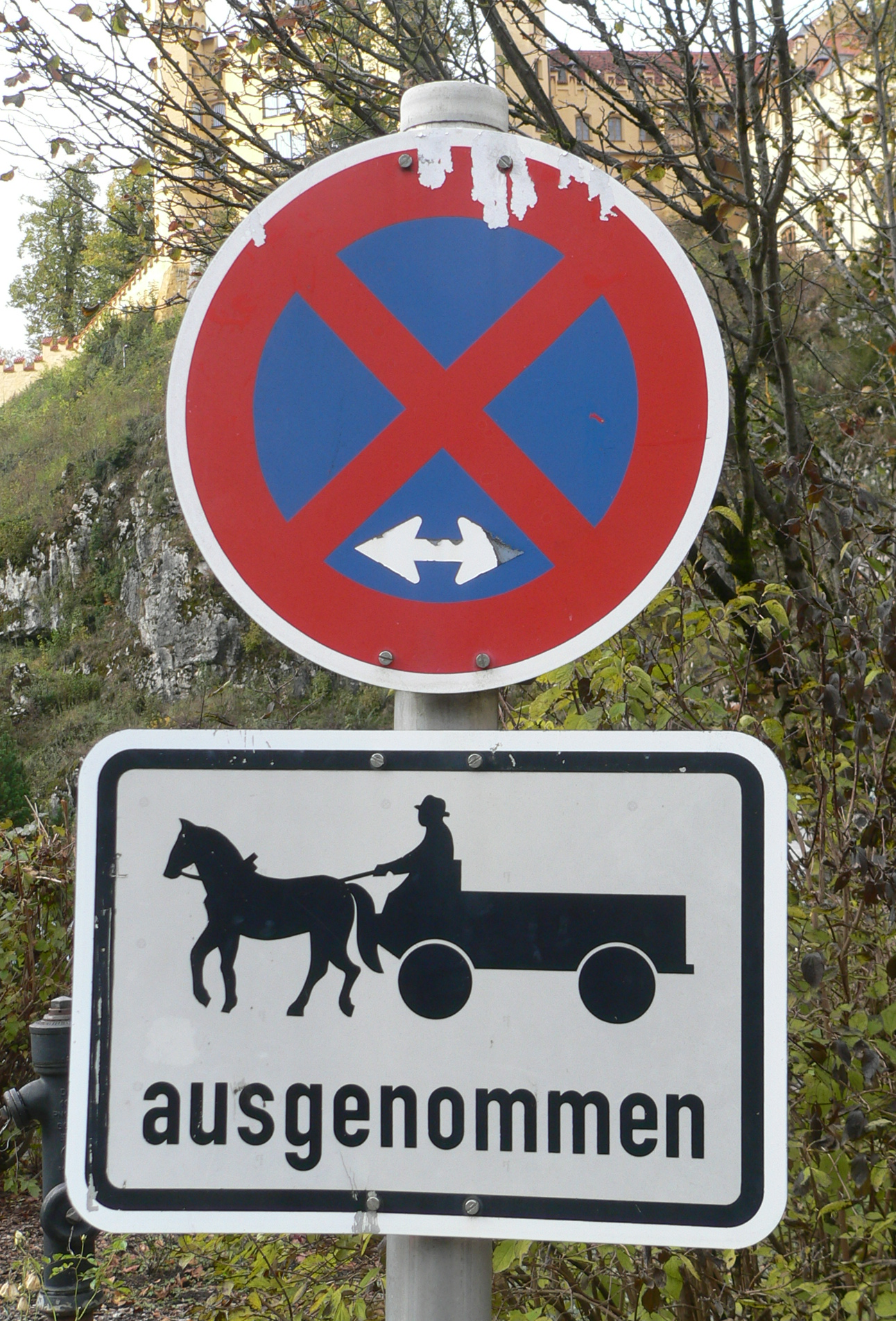 Sign "no parking except horse-drawn vehicle" in Hohenschwangau, Germany.